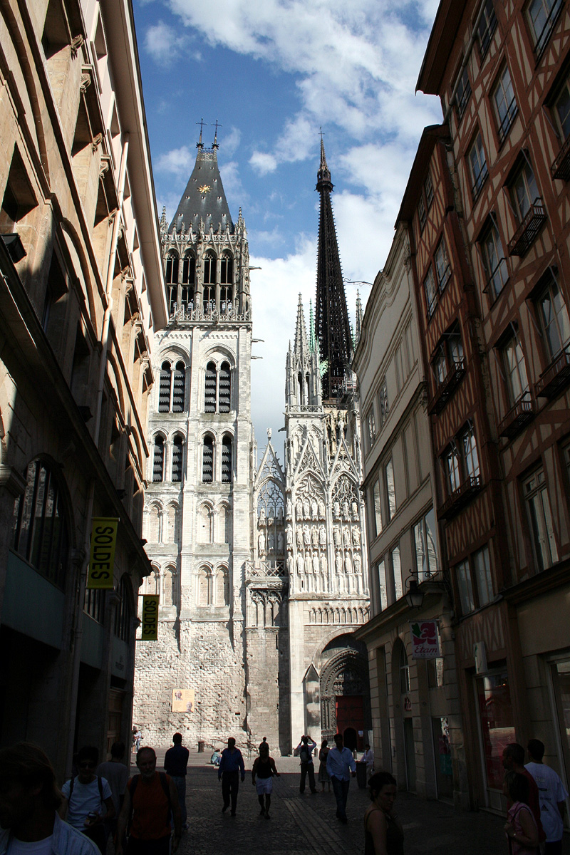 The streets and the cathedral, Rouen, France